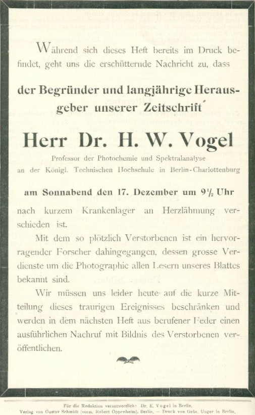 Hermann Wilhelm Vogel